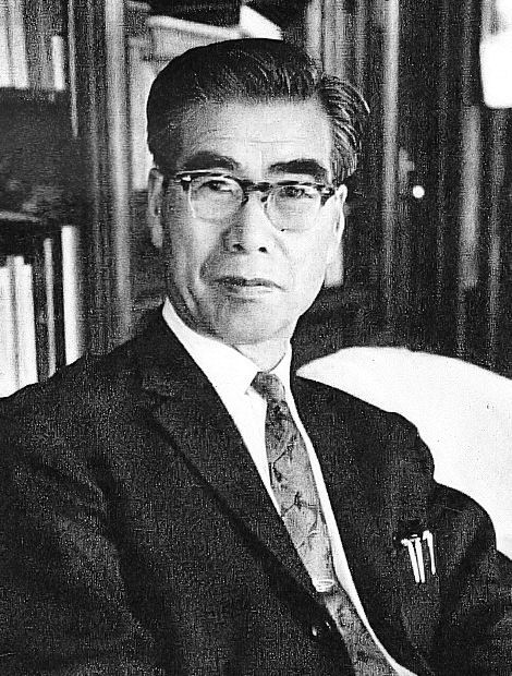 Seiji Kaya